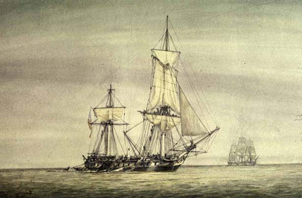 USS Constellation engaging la Vengeance